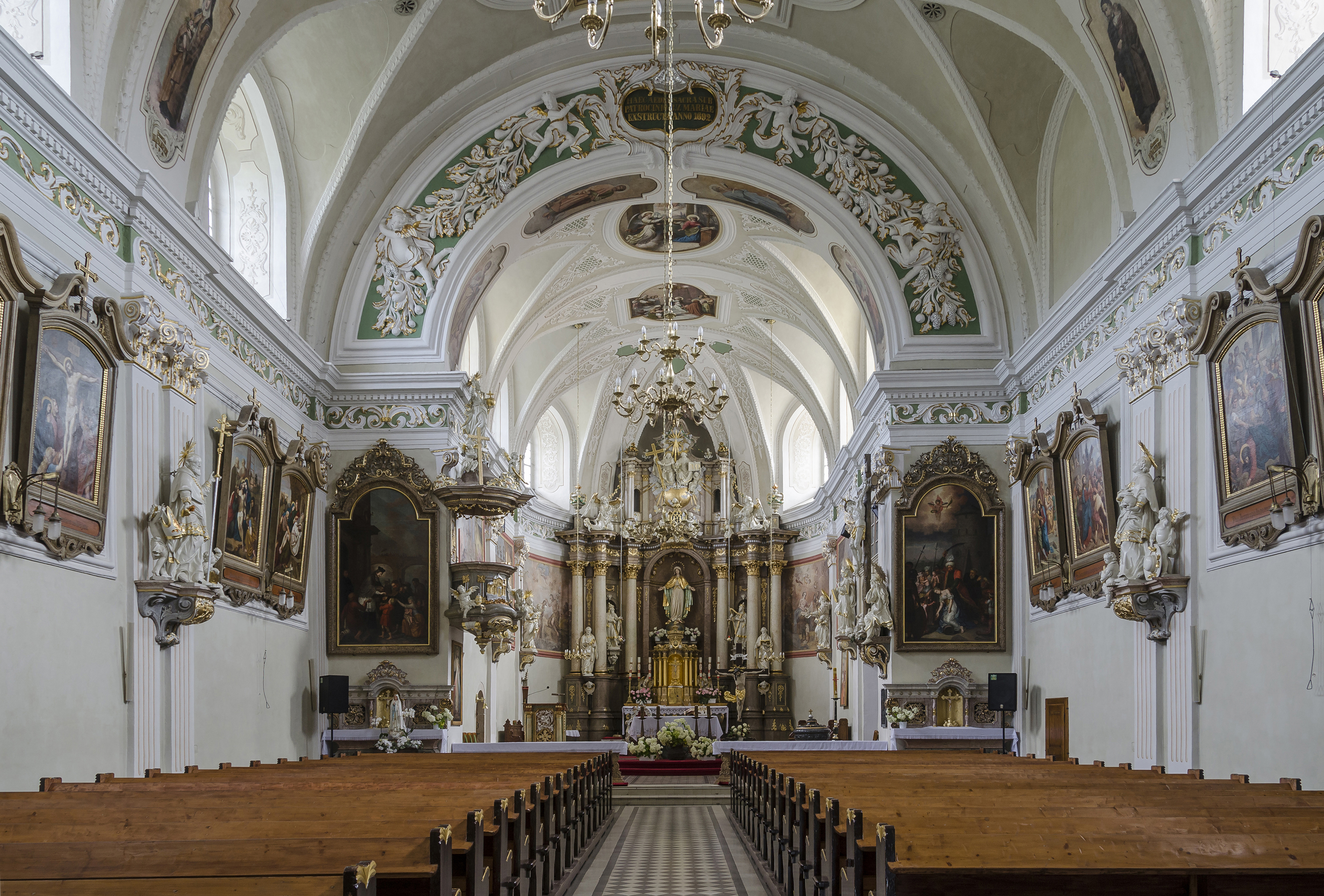 Church of the Nativity of the Virgin Mary in Lądek-Zdrój Ta fotografia przedstawia zabytek wpisany do rejestru zabytków pod numerem ID 592797